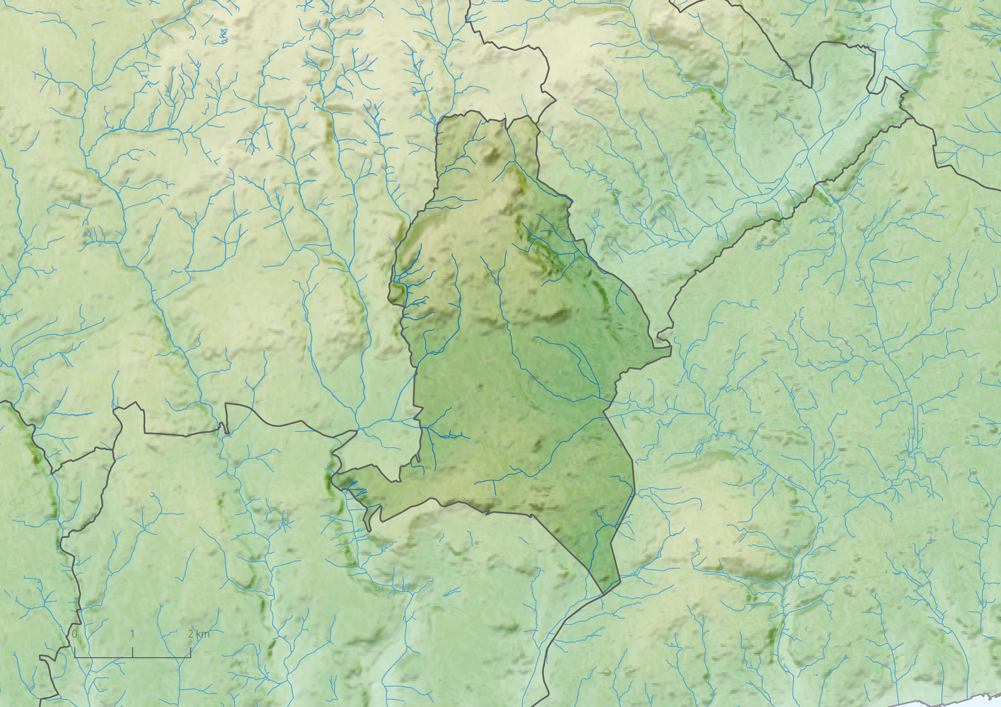 Relief map of Amadora, Portugal, complete with administrative boundaries, as well as streams and rivers.